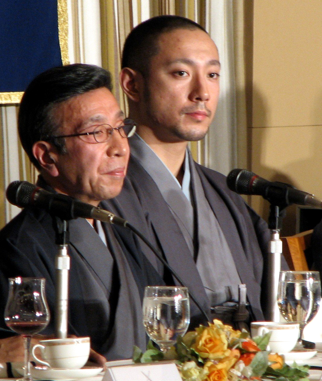 Kabuki actors (left to right) Danshirō Ichikawa IV, Ichikawa Ebizō XI